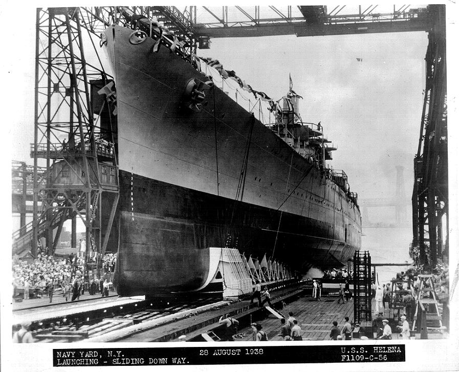 USS Helena (CL-50) starting her slide into the water on August 27, 1938.